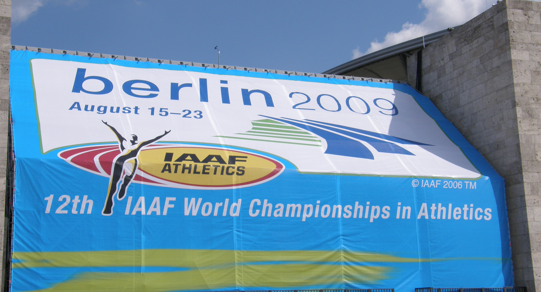 World Championships Berlin 2009